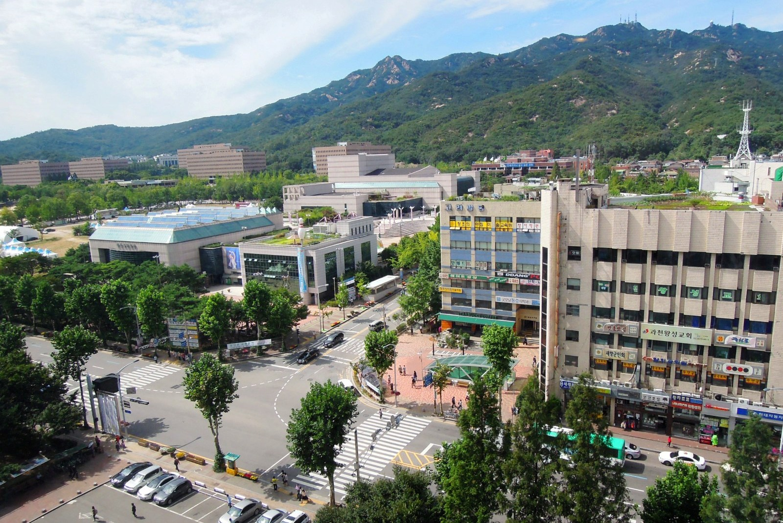 Gwacheon, left the town hall, behind Government-Komplex, rechts above Mountain Gwanak